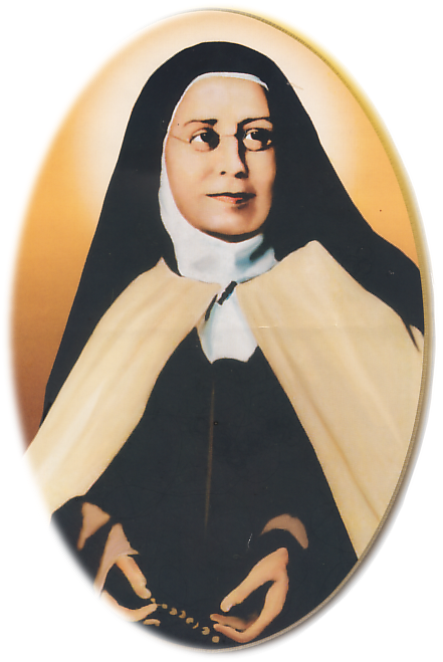 Photograph of Mother Mary Veronica of the Passion OCD (1823-1906)